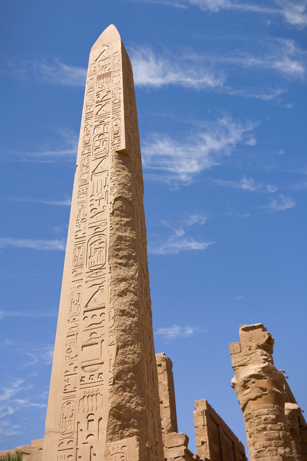 Obelisk at Karnak temple in Luxor, Egypt